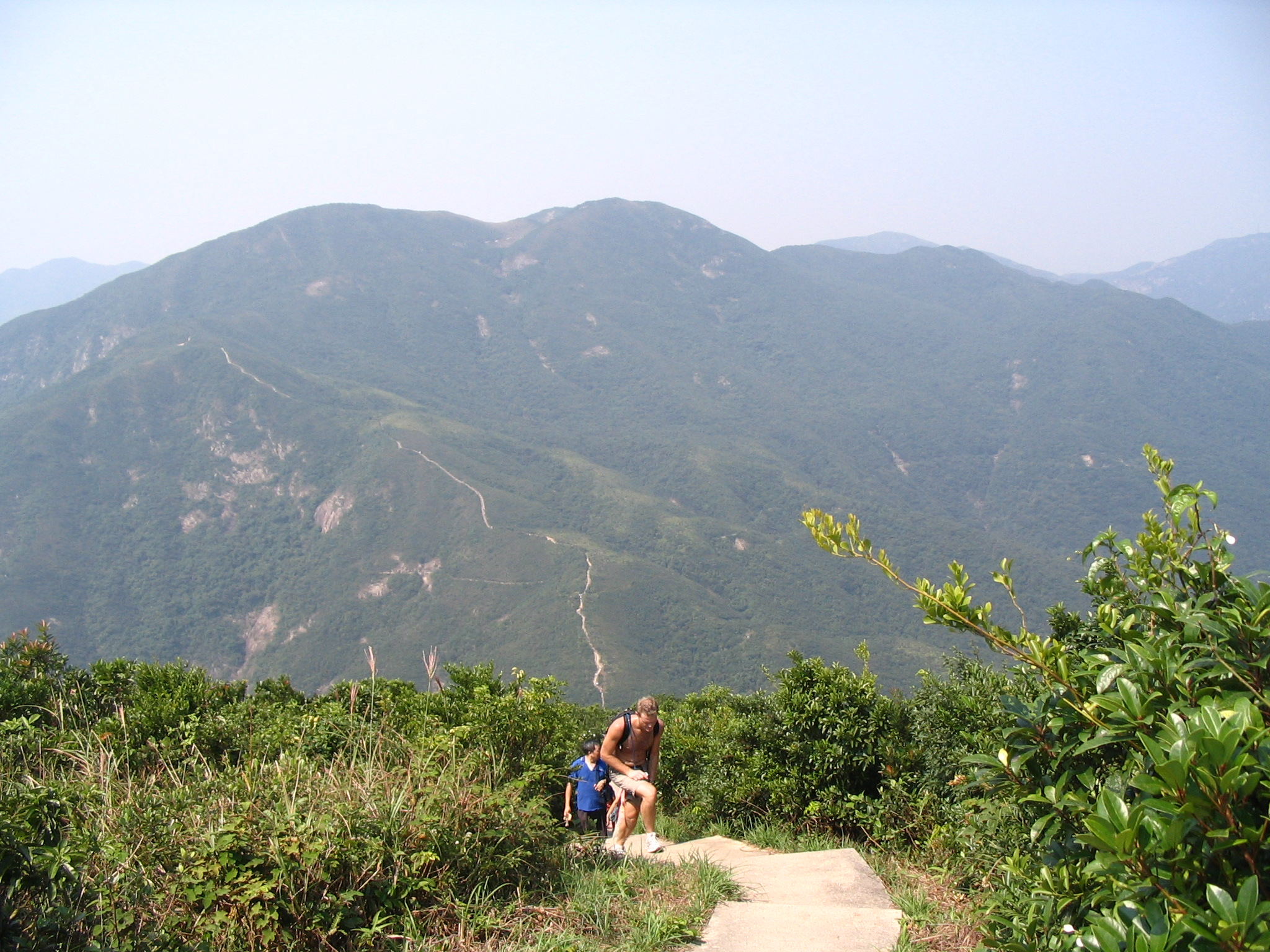 Photo of Violet Hill